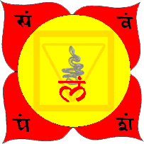 THE muladhara